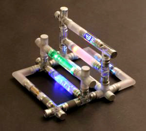 3D Elex Pipe building from different type of leds